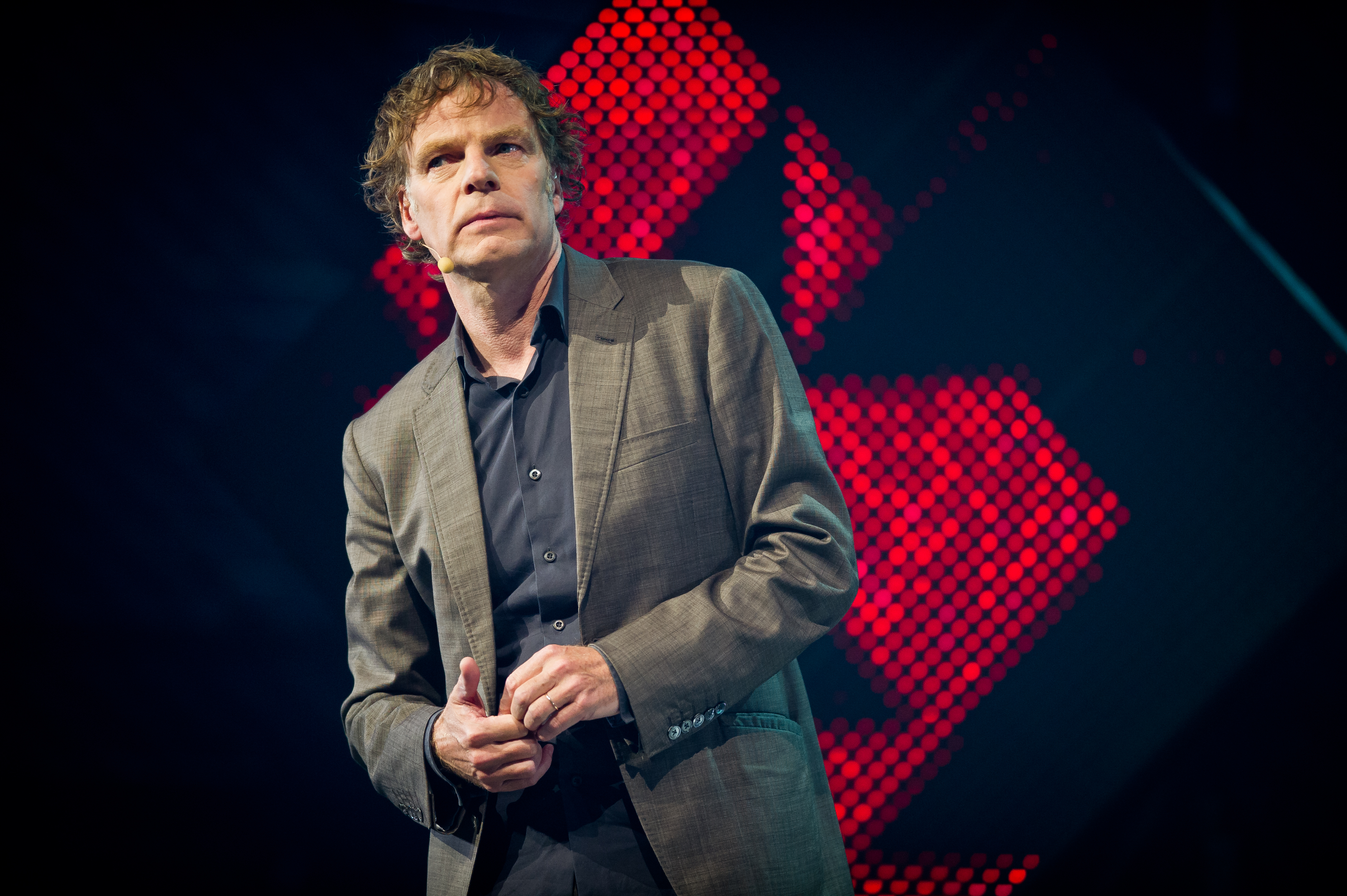 Winy Maas at C2-MTL.